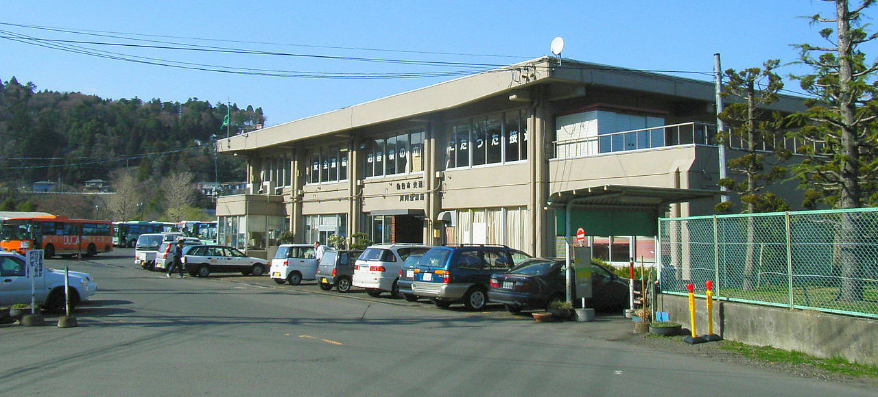 Kawauchi Office of the Sendai City Transpoetacion Bureau. Sendai, Miyagi prefecture, Japan.